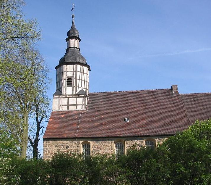 Stonechurch in Marzahna in the landscape Fläming, built in the ending 12th/beginning 13th century. The village Marzahna is a part of the town Treuenbrietzen in the district Potsdam Mittelmark, state Brandenburg, Germany.